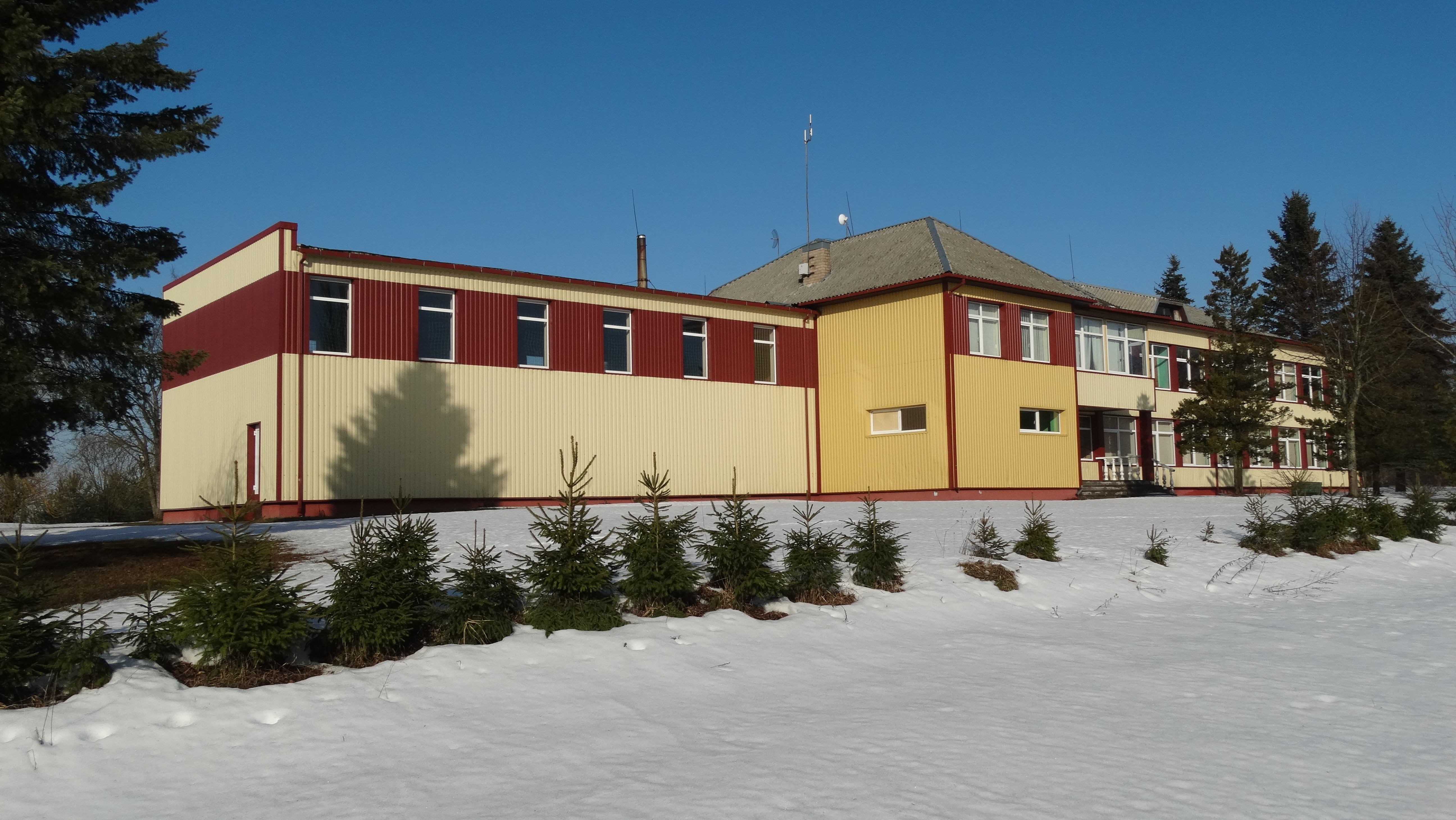 Basic school, Bijotai, Šilalė district, Lithuania